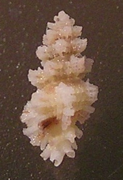 Favartia (Favartia) guamensis Emerson & D'Attilio, 1979, a murex snail from the family Muricidae; Philippines Category:Muricidae